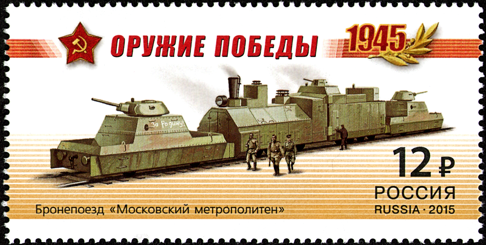 The weapon of the Victory (the ongoing stamp series). Issue VII: Armoured trains. The Soviet armoured train Moskovsky Metropoliten (The Moscow Metro). Built in 1943 for money raised by the workers of the Moscow Metro . The stamp of Russia, 12.00 ₽, 30 April 2015, PTC Marka Catalogue No 1941. Coated paper. Offset printing, multicoloured. Perforation: comb 13½×13½. Size of the stamp: 65×32.5 mm. Print run: 450,600.